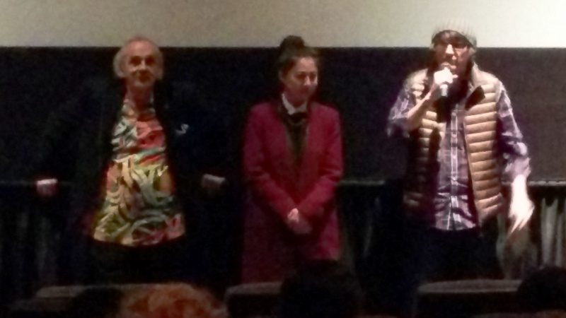 Pepe Serna, Ayako Fujitani, and Dave Boyle at a Q&A session for Man from Reno at the Sundance Kabuki in San Francisco, California, United States